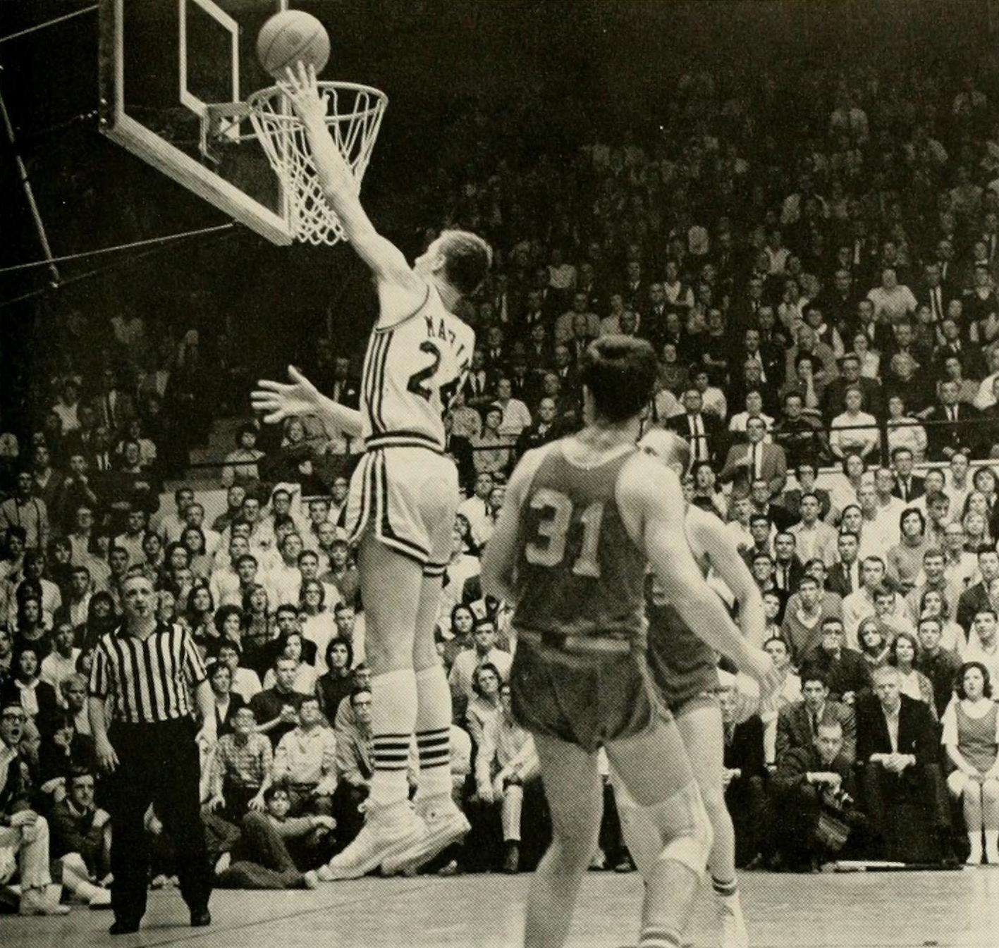 A scan from the 1965 edition of the Chanticleer, the yearbook of Duke University